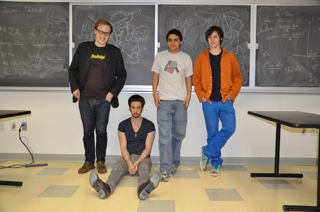 The Diaspora developers